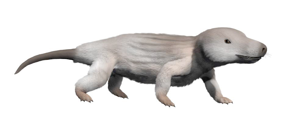 Life restoration of Dvinia prima